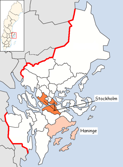 Haninge Municipality in Stockholm County Designed by me. Mere outlines are a PD source from